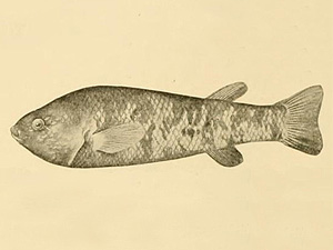 Ash Meadows-Killifisch (Empetrichthys merriami) Depiction from 'Fishes, by David Starr Jordan; New York, Henry Holt and Company. 1907'